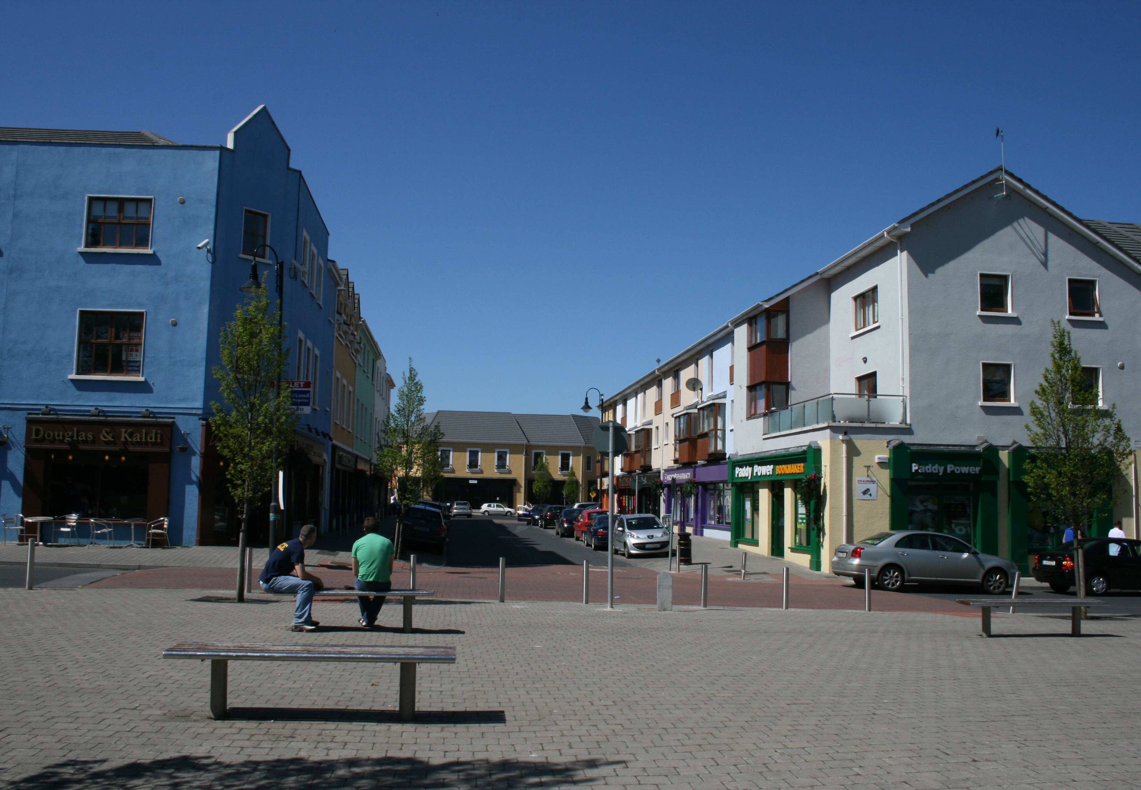 Ongar Square, Dublin, Ireland